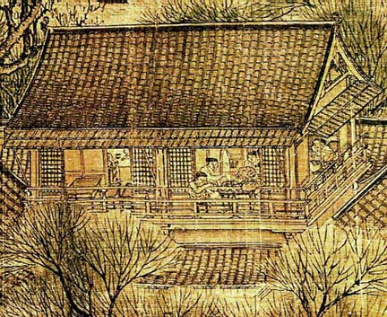 Close-up detail of the Chinese cityscape handscroll Along the River During Qingming Festival, ink and colors on silk, 25.5 × 525 cm.